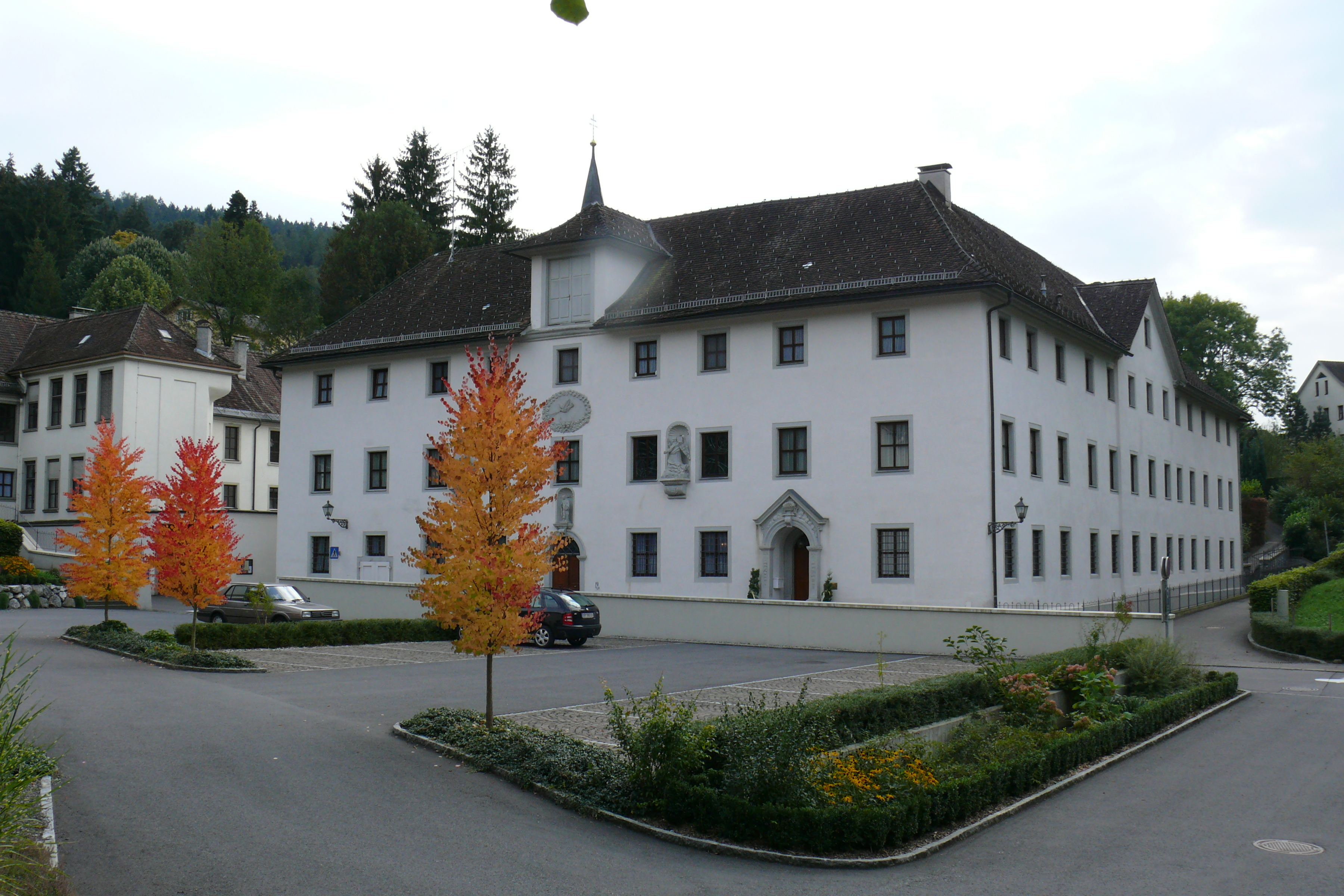 Kloster Thalbach, Bregenz